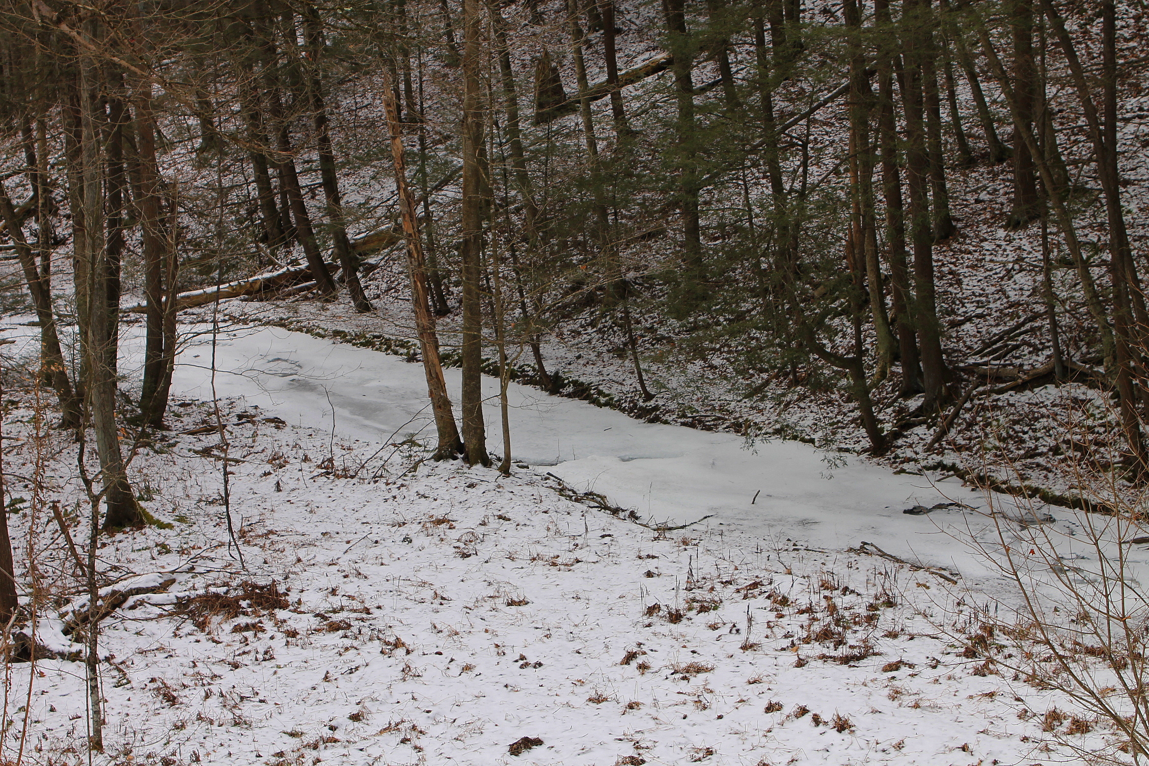 Shingle Run, a tributary of West Branch Run, in its lower reaches. It is frozen over.